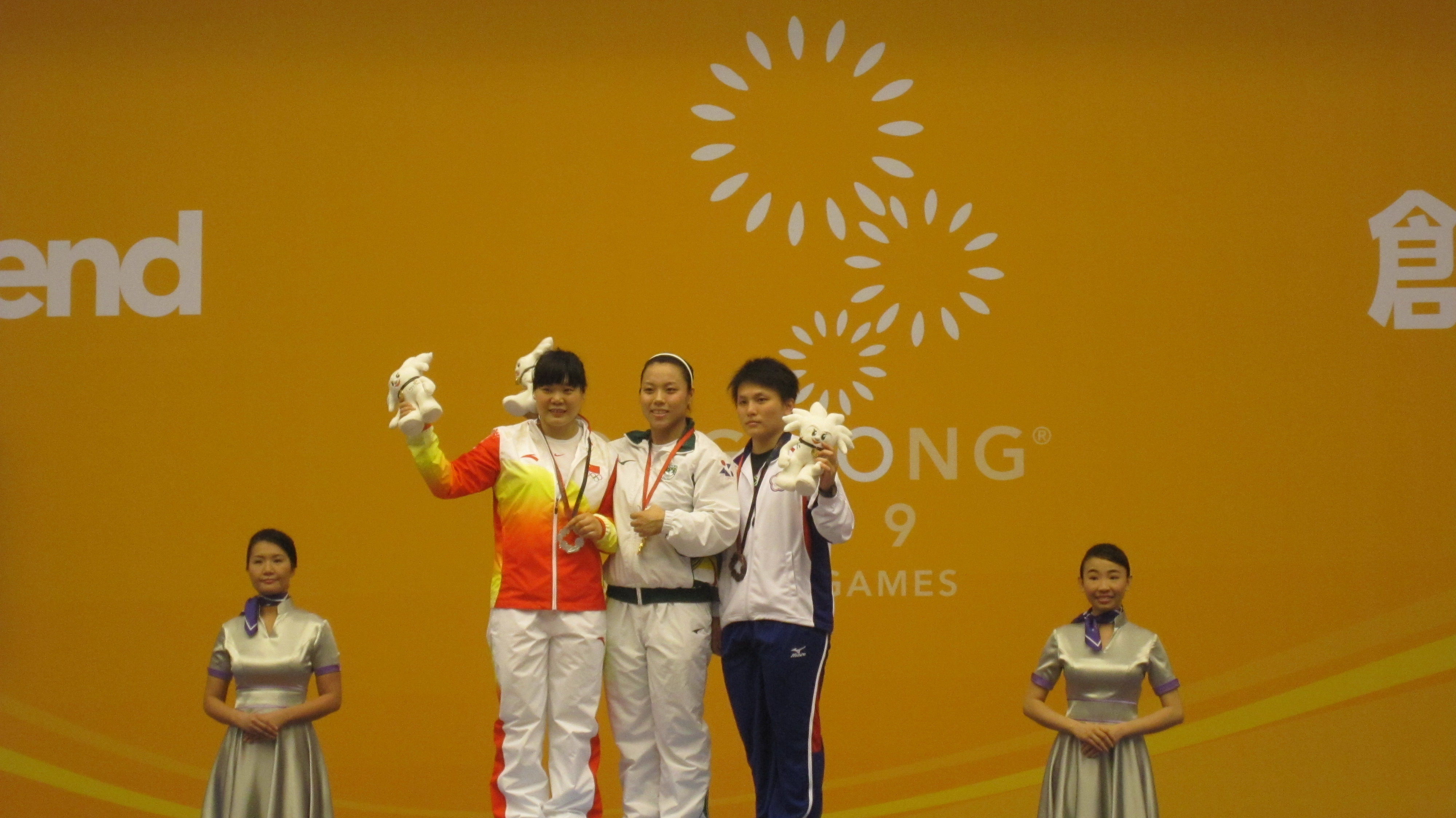 Hong Kong East Asian Games